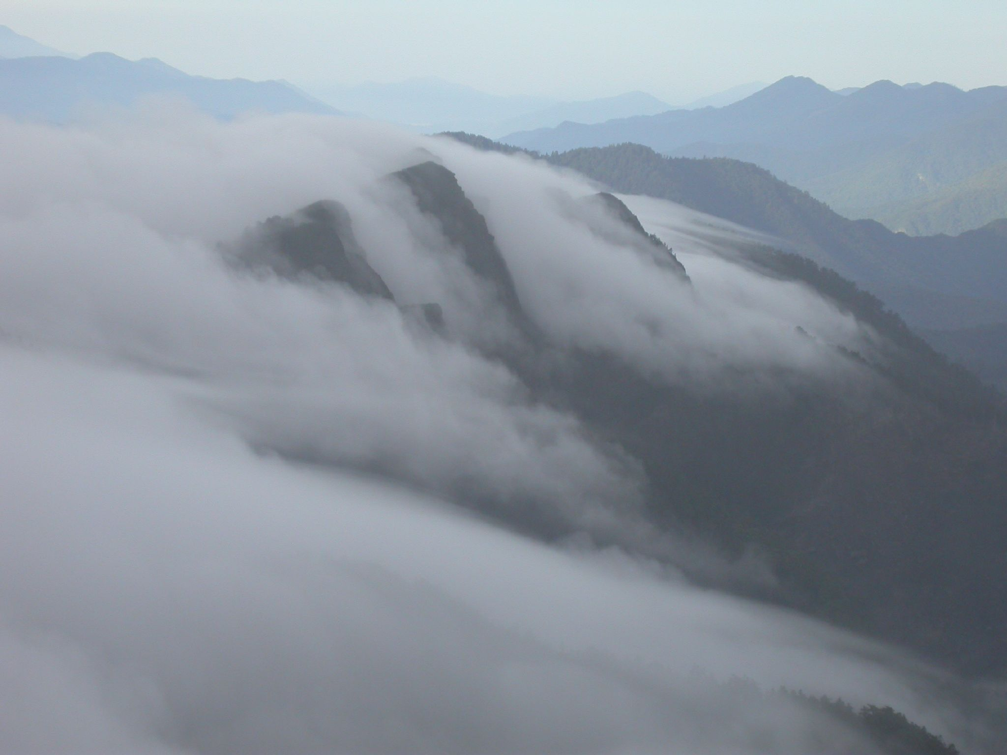 Seas of Clouds near Yushan